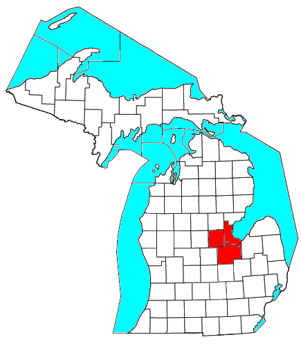 Saginaw, Bay, and Midland Counties highlighted on a state map.